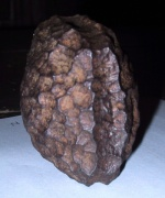 This photograph of the Wolfsegg Iron was taken by User:Editor_Bob. No rights reserved.